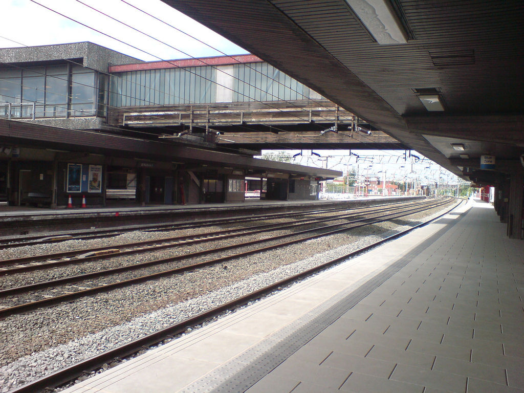 The view at Stafford Station.